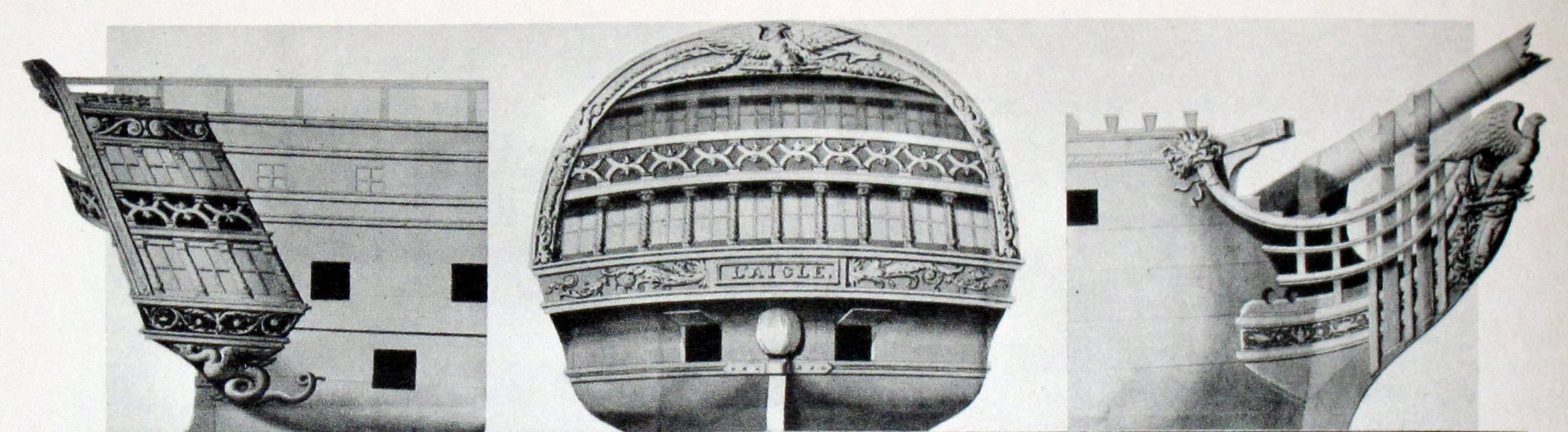 Stern of Aigle